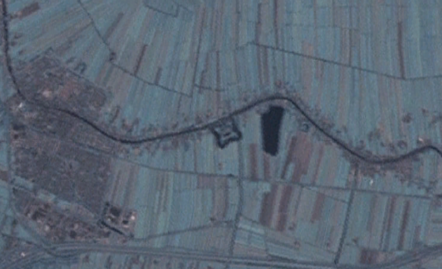 Copied from the Worldwind program. Taken from an altitude of about 7km. Shows Fort Wierickerschans (the star-shaped object near the center) along the Dutch Waterline.